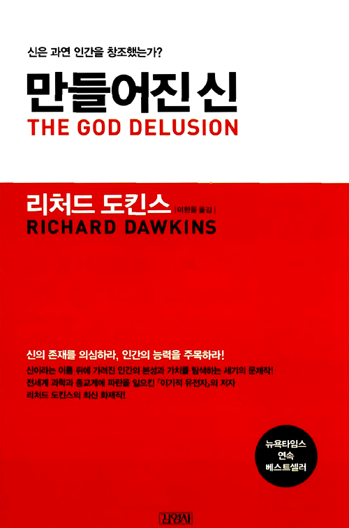 Cover Richard Dawkins' God Delusion